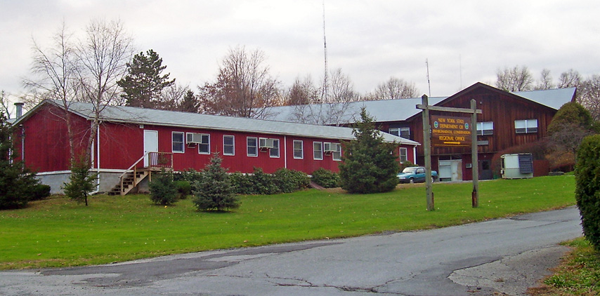 New York State Department of Environmental Conservation, Region 3 HQ, New Paltz, NY. Photographed by Daniel Case 2006-11-19